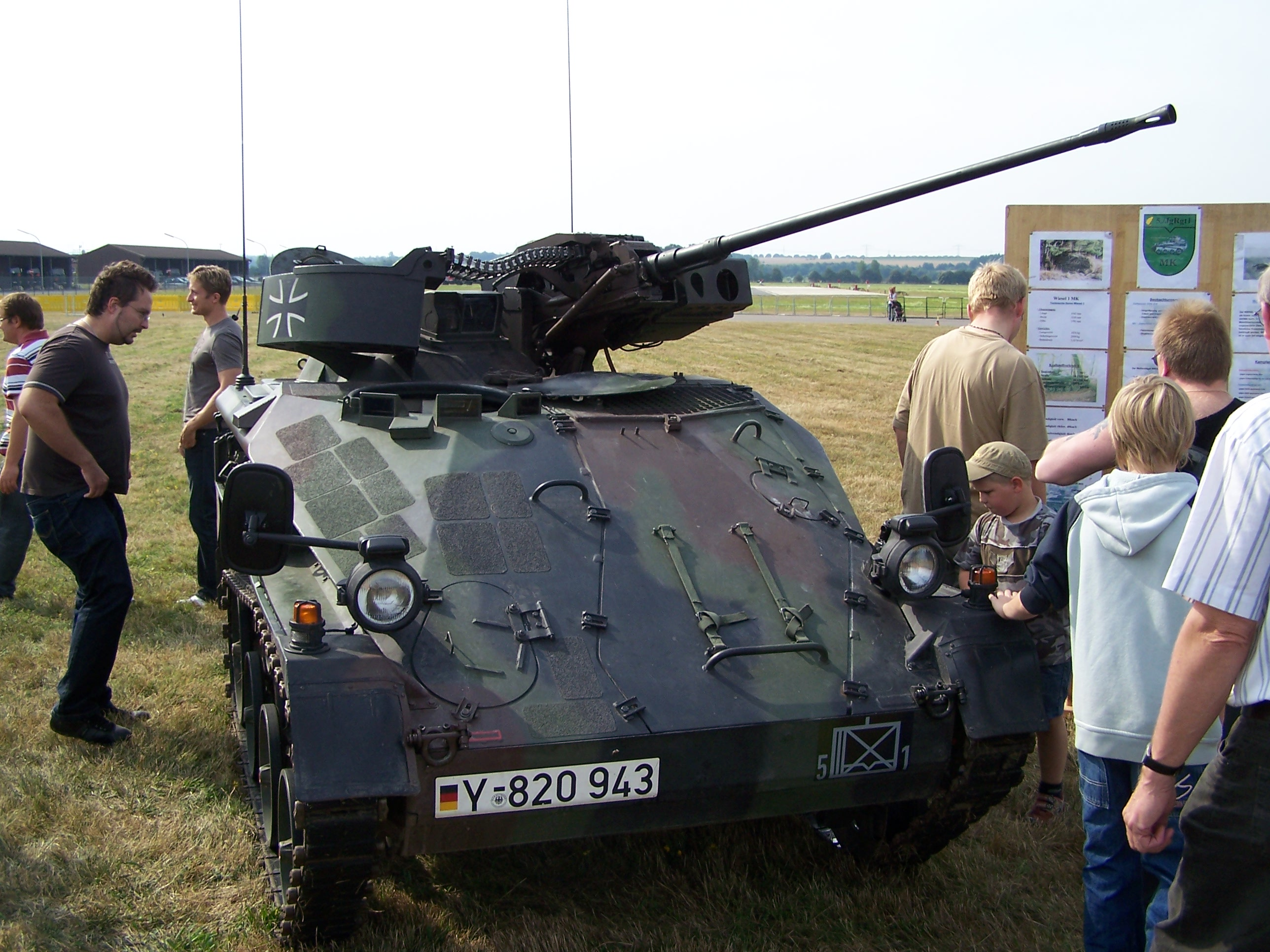 A German Army Wiesel AWC on static display.